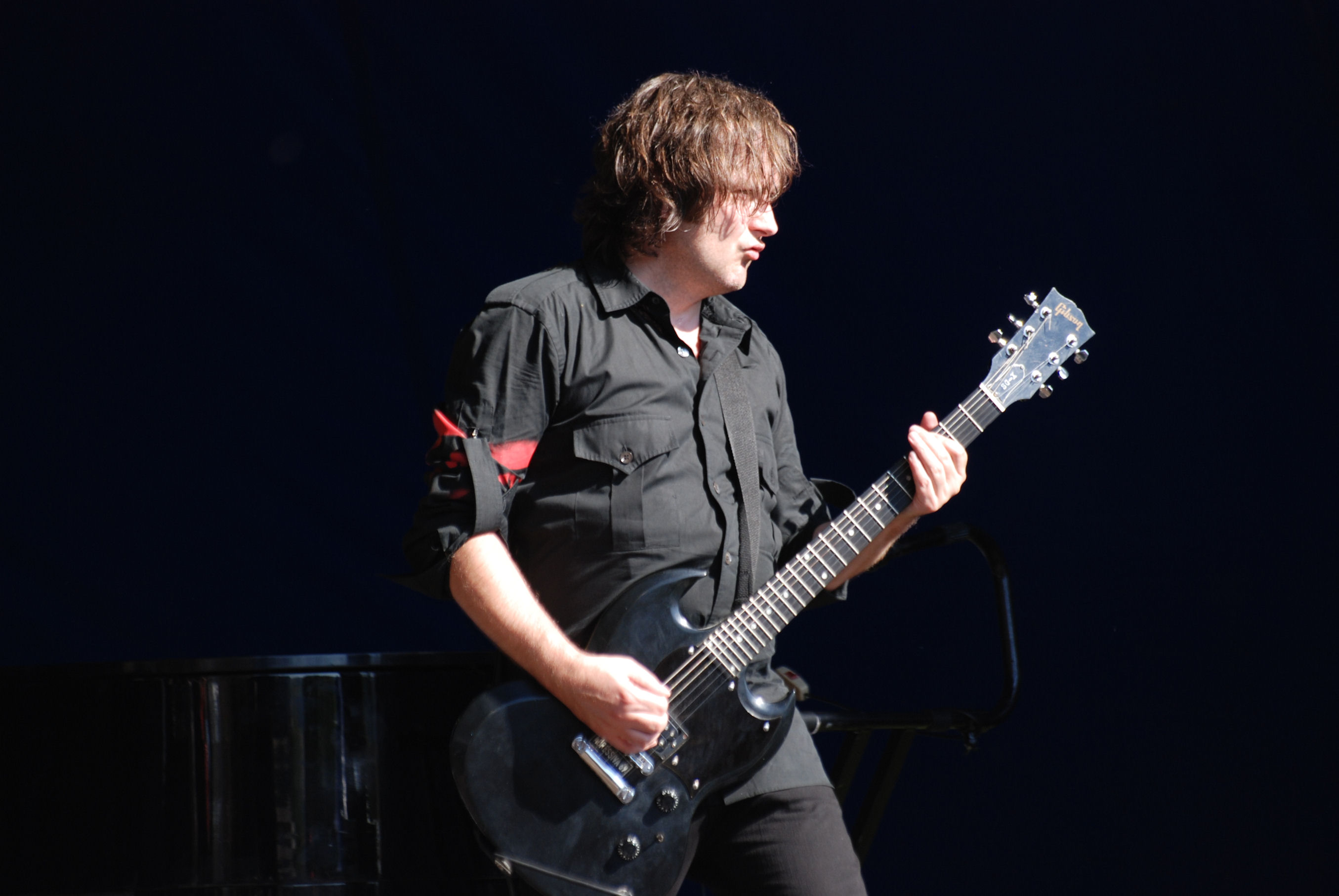 Made In Poland during Castle Party 2008